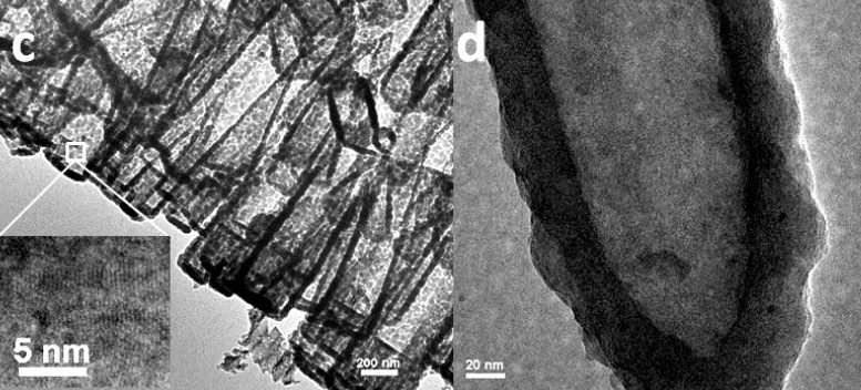 (c) Porous Si NTs (after annealing at 600 ºC for 30 min). Inset: HRTEM lattice image of Si NTs. (d) Amorphous Si NTs with large thickness (after annealing at 600 ºC for 30 min).